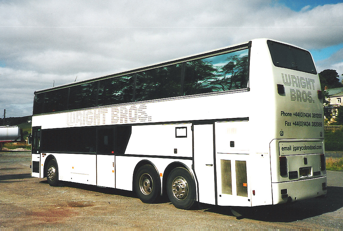 A Van Hool Sleeper bus operated by Wright Bros of Cumbria, England